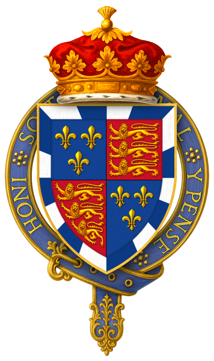 Shield of arms of Henry Somerset, 6th Duke of Beaufort, KG